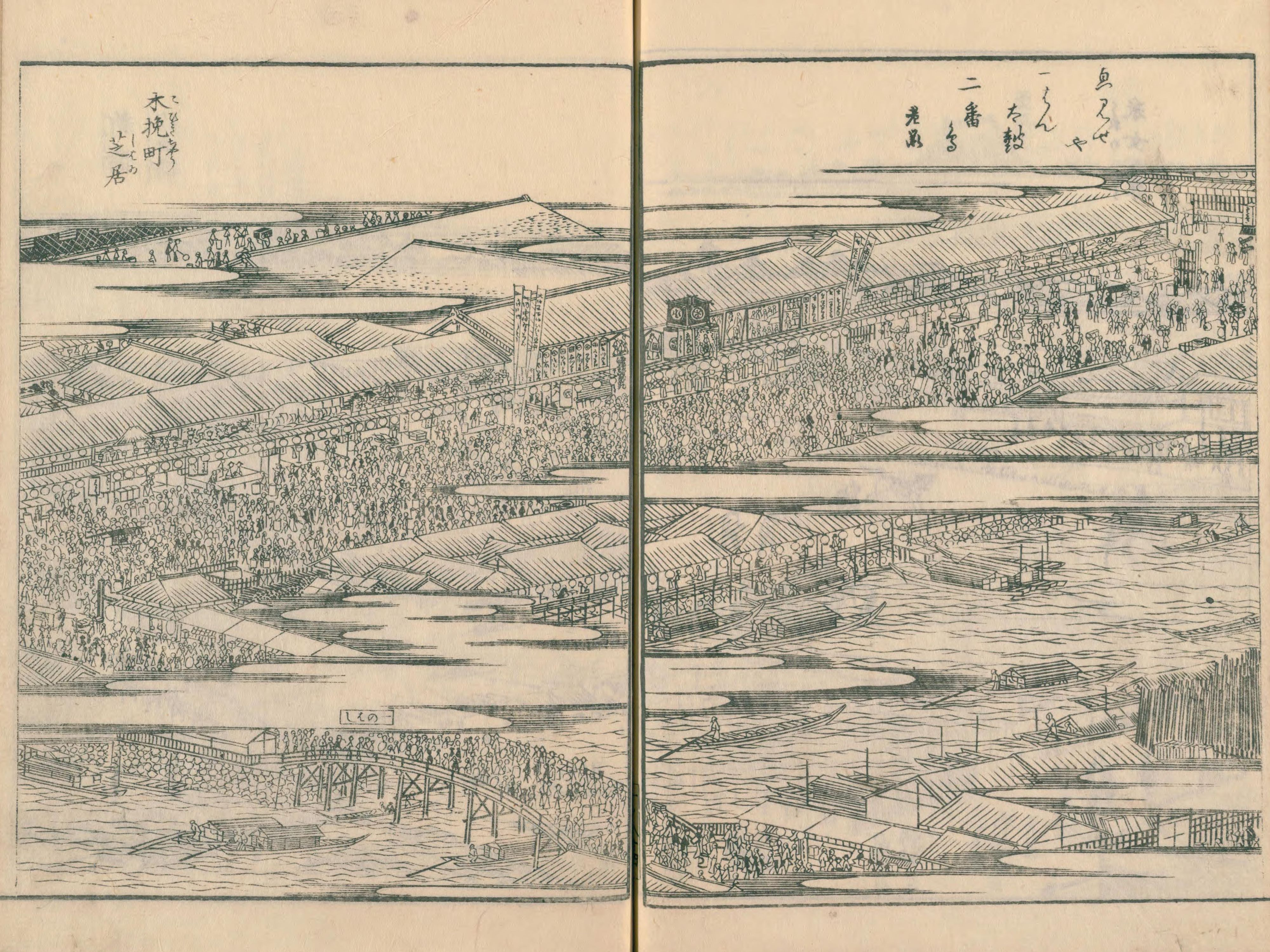 Kobiki-chō, theater district (Morita-za) in Edo Meisho Zue vol. 1 (book 2)